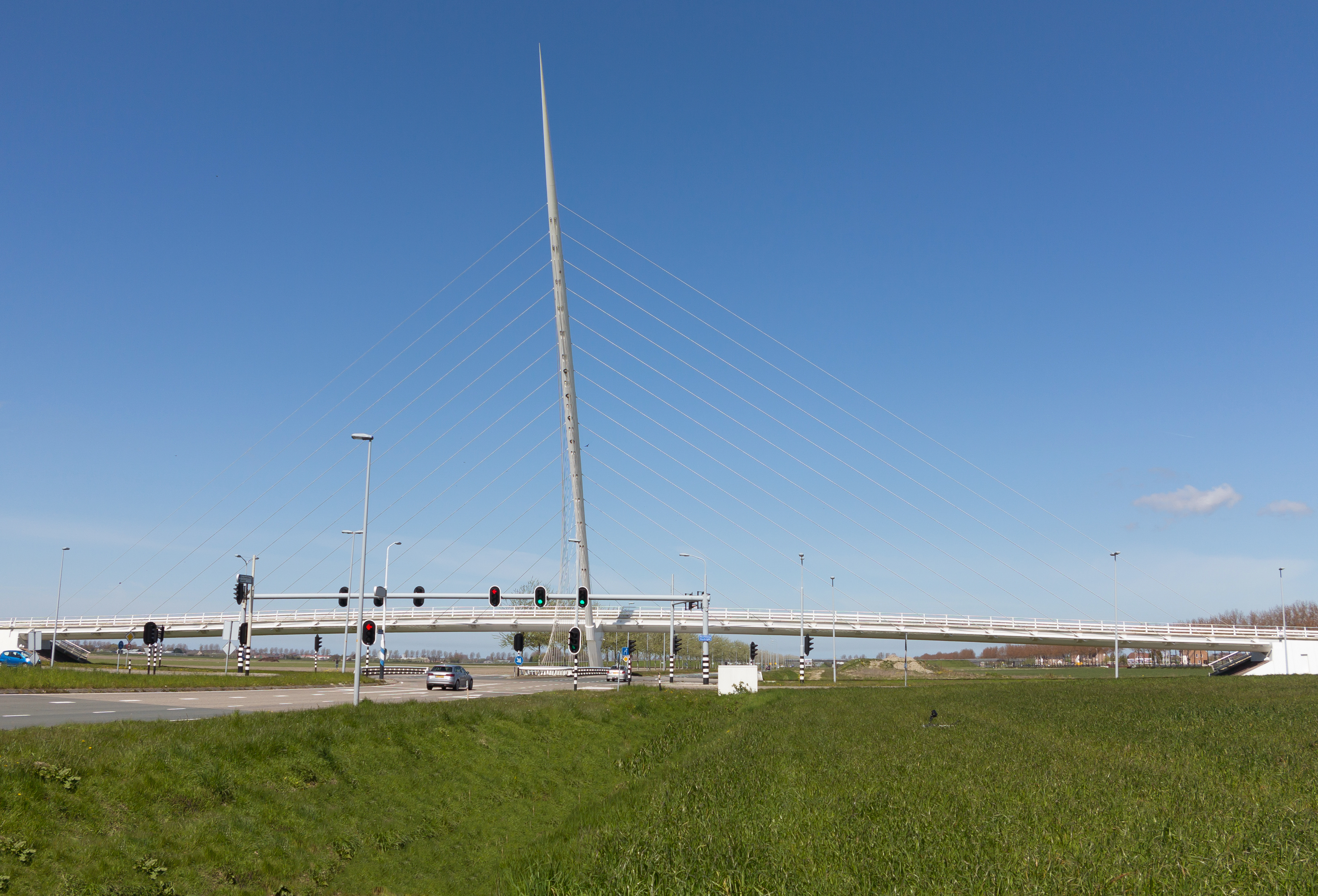 Hoofddorp, Calatrava bridge de Citer